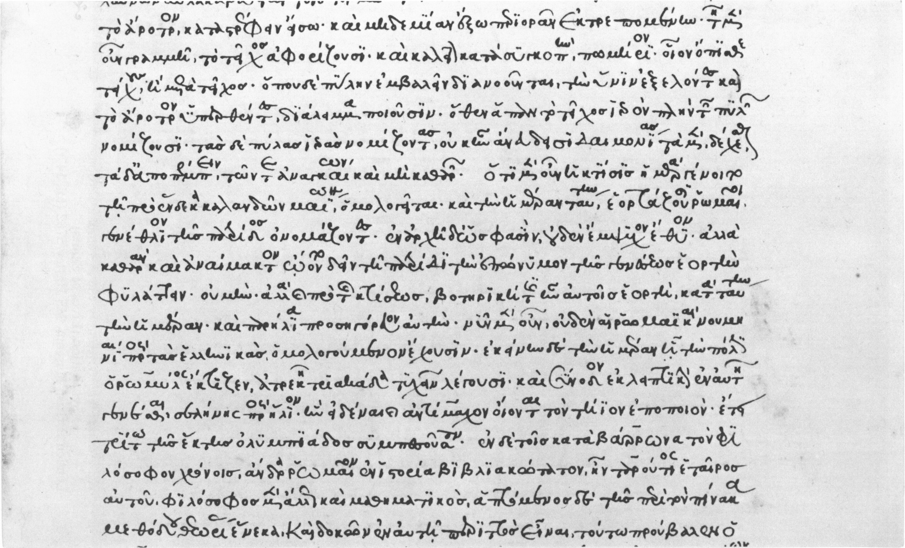 Plutarch, Parallel Lives (Life of Romulus) in a manuscript written by Manuel Tzycandyles, a Byzantine scribe. Oxford, Bodleian Library, MS. Canonici Greek 93, fol. 13r.